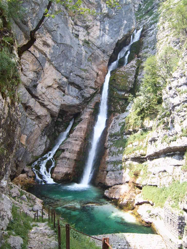 Slap Savica, Triglav National Park, Slovenia Photographer: Markus Bernet Date: 08/01/2005